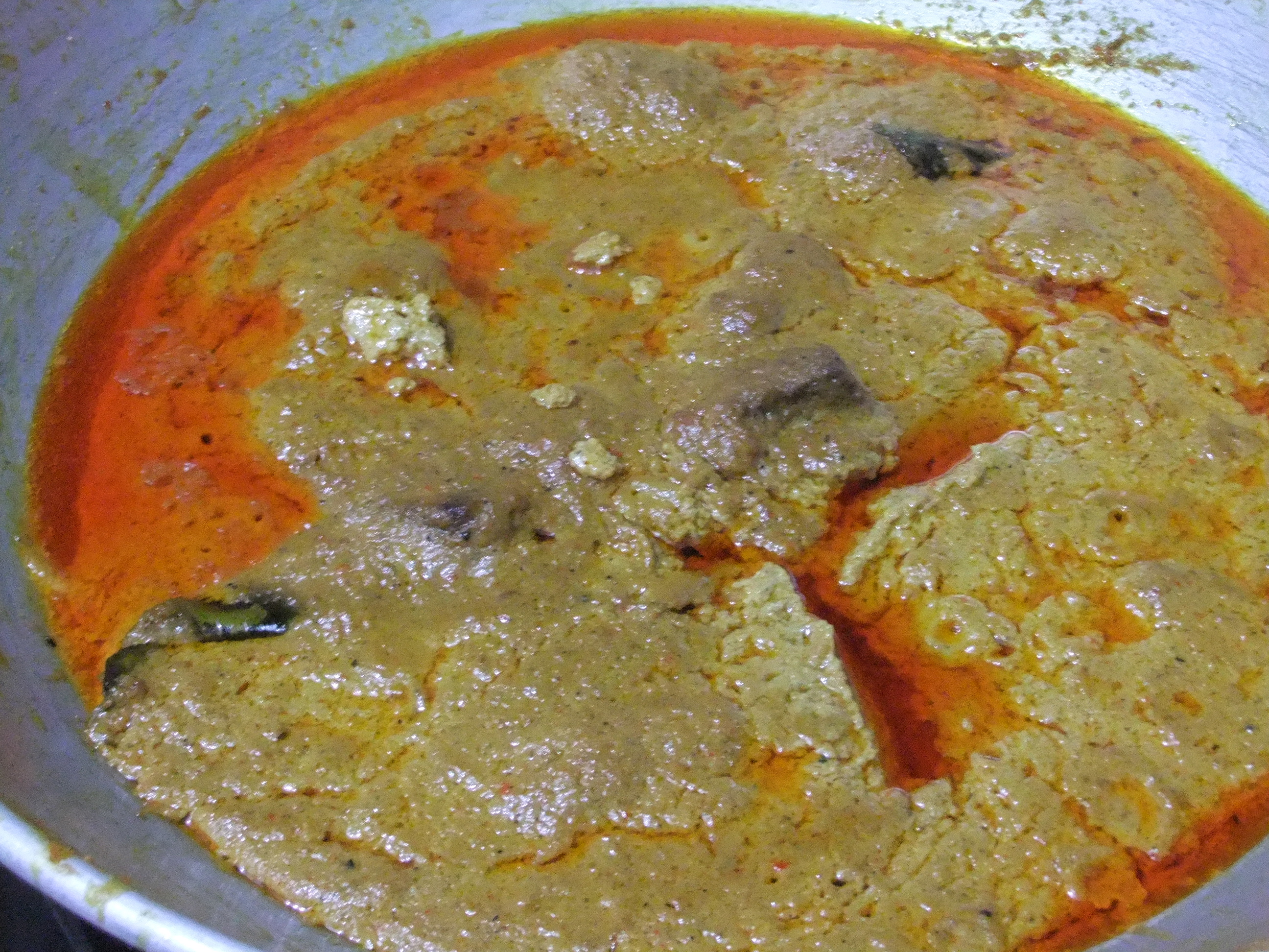 Half cooked Rendang